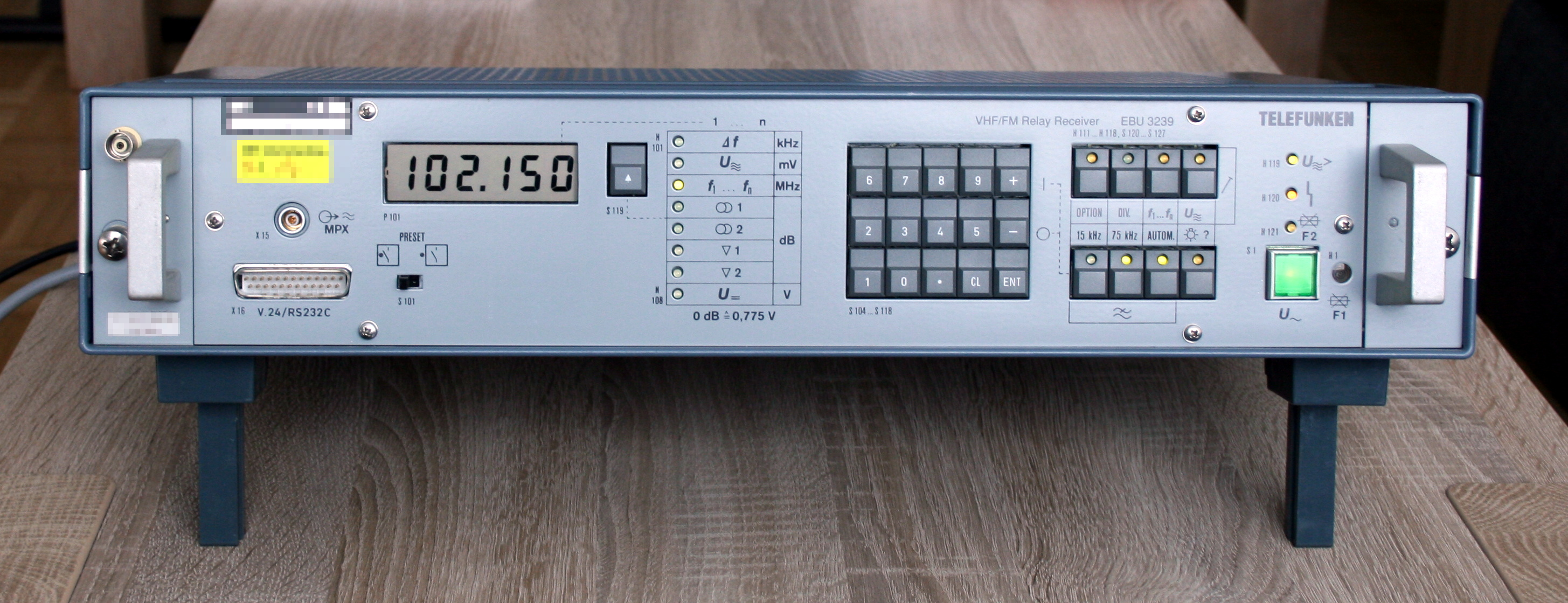 VHF relay receiver Telefunken EBU 3239